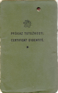 Cover of the Nansen passport, editor: Police office, Prague